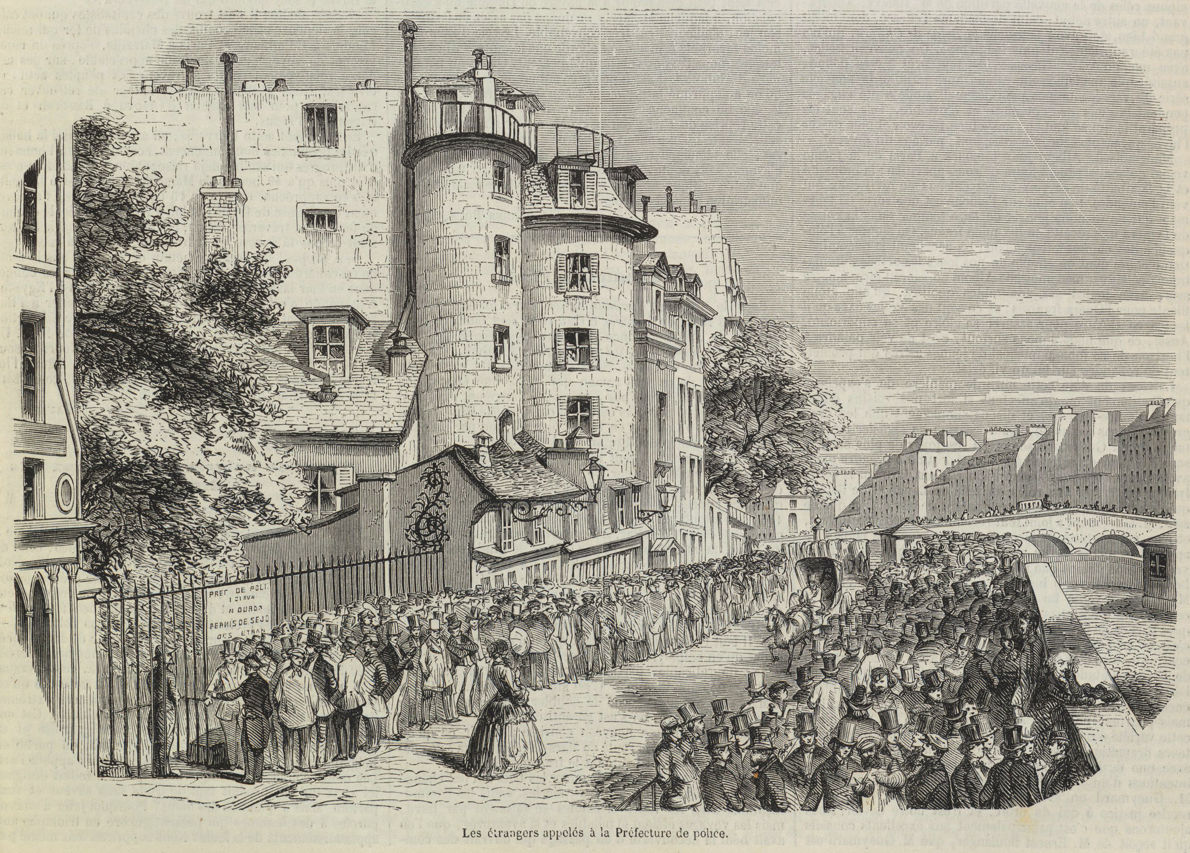 This print illustrates an article about a new legislation: in 1850, the government passed a law requiring that foreigners obtain a residence permit, if they wanted to stay in Paris.